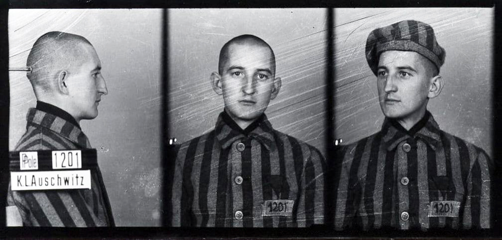 Franciszek Blachnicki (1921-1987) - Polish Roman Catholic priest and the founder of the Light-Life movement - also known as the Oasis Movement. Here in Nazi-Germany Concentration Camp KL Auschwitz 1940